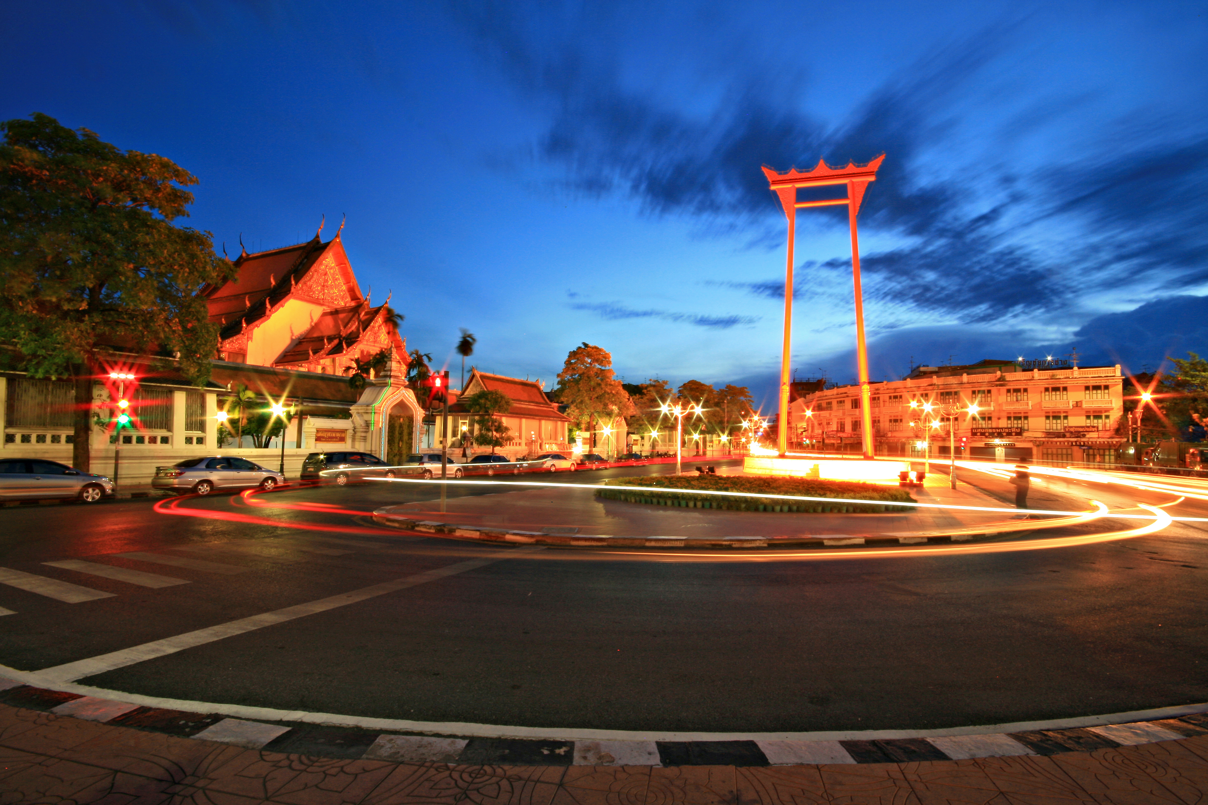 Giant Swing, Phra Nakhon District, Bangkok